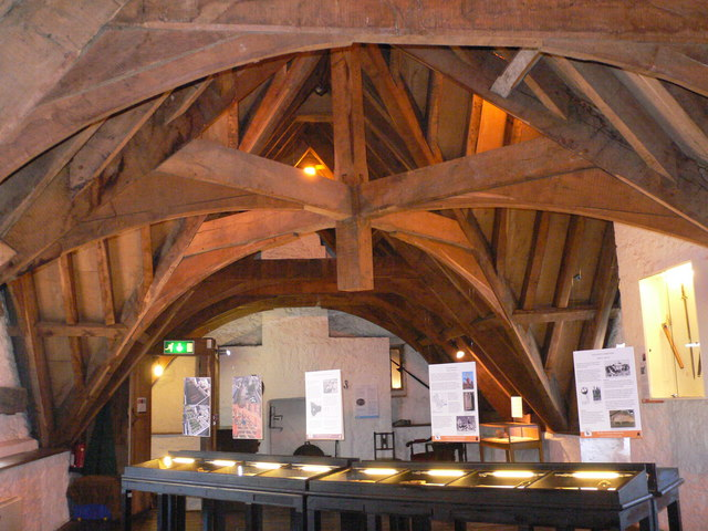 Beams, Rothe House This magnificent Irish Oak Roof is built using a King Post construction.